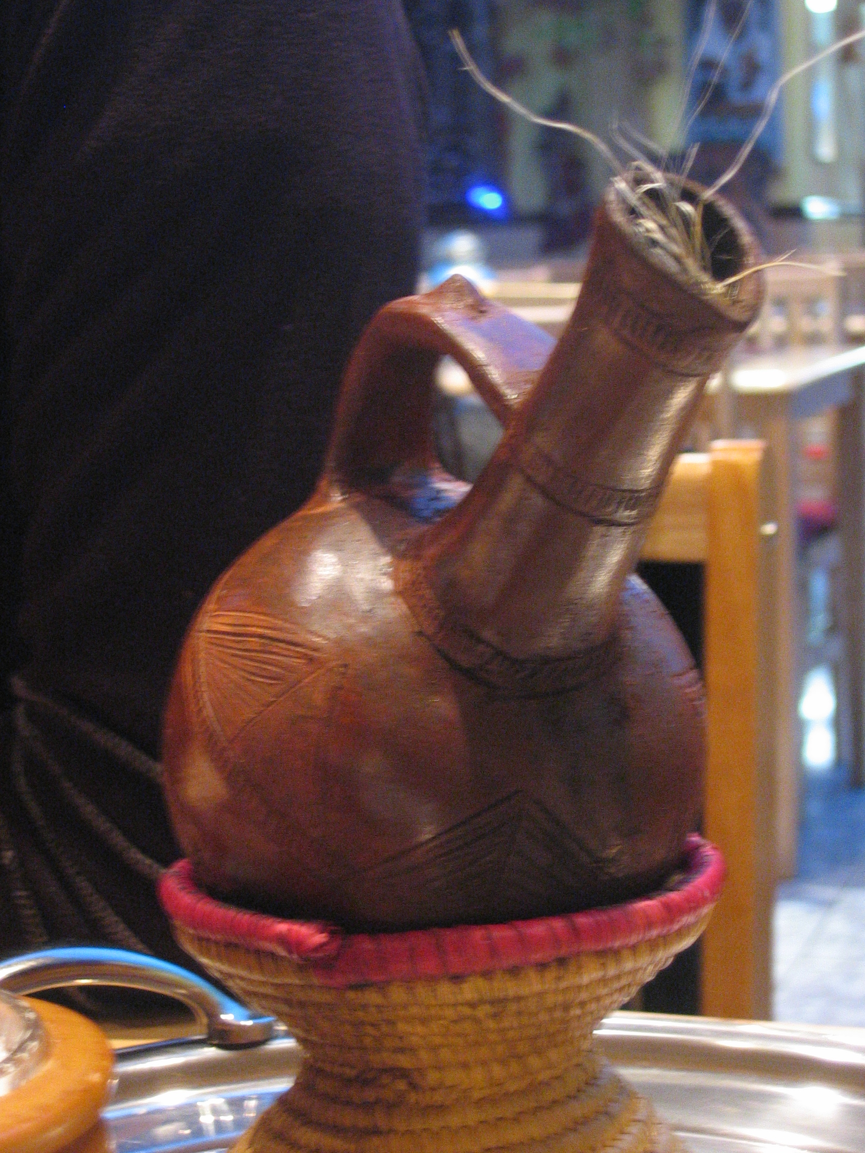 Coffee pot at an Eritrean restaurant in London